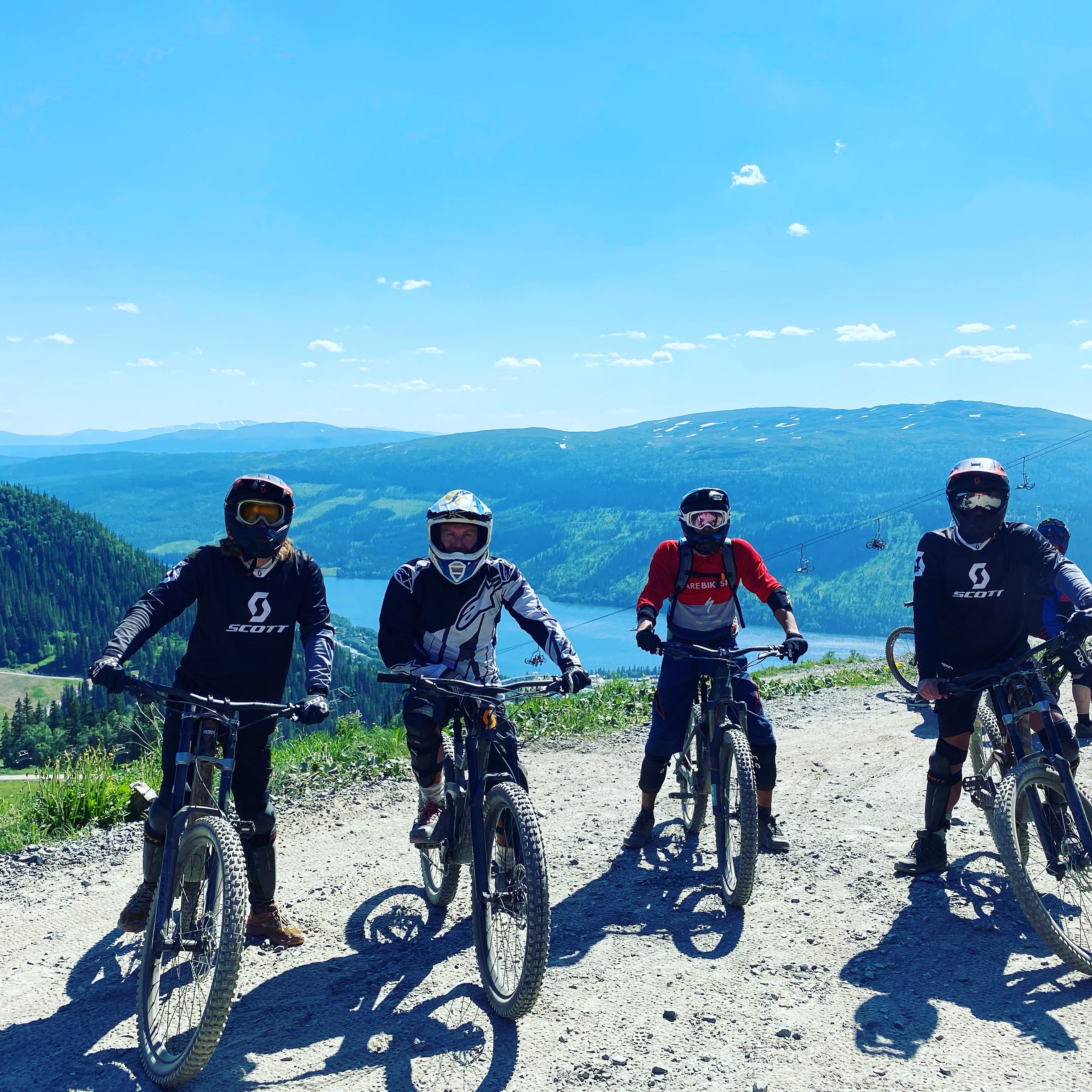 Mountainbike Sweden Åre Sunshine